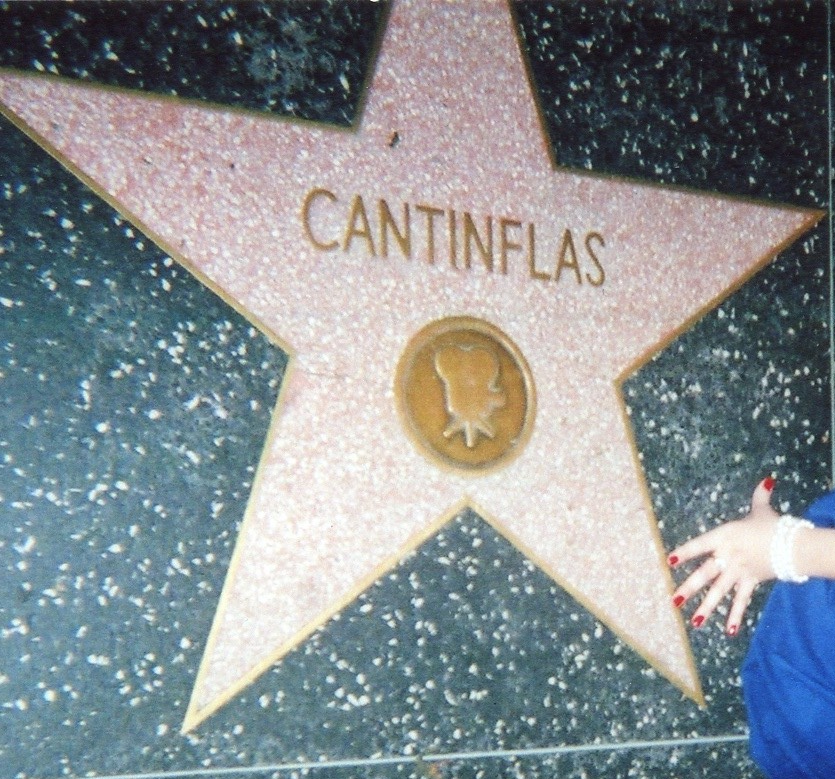 Modified from Image:Mecantinflas.JPG